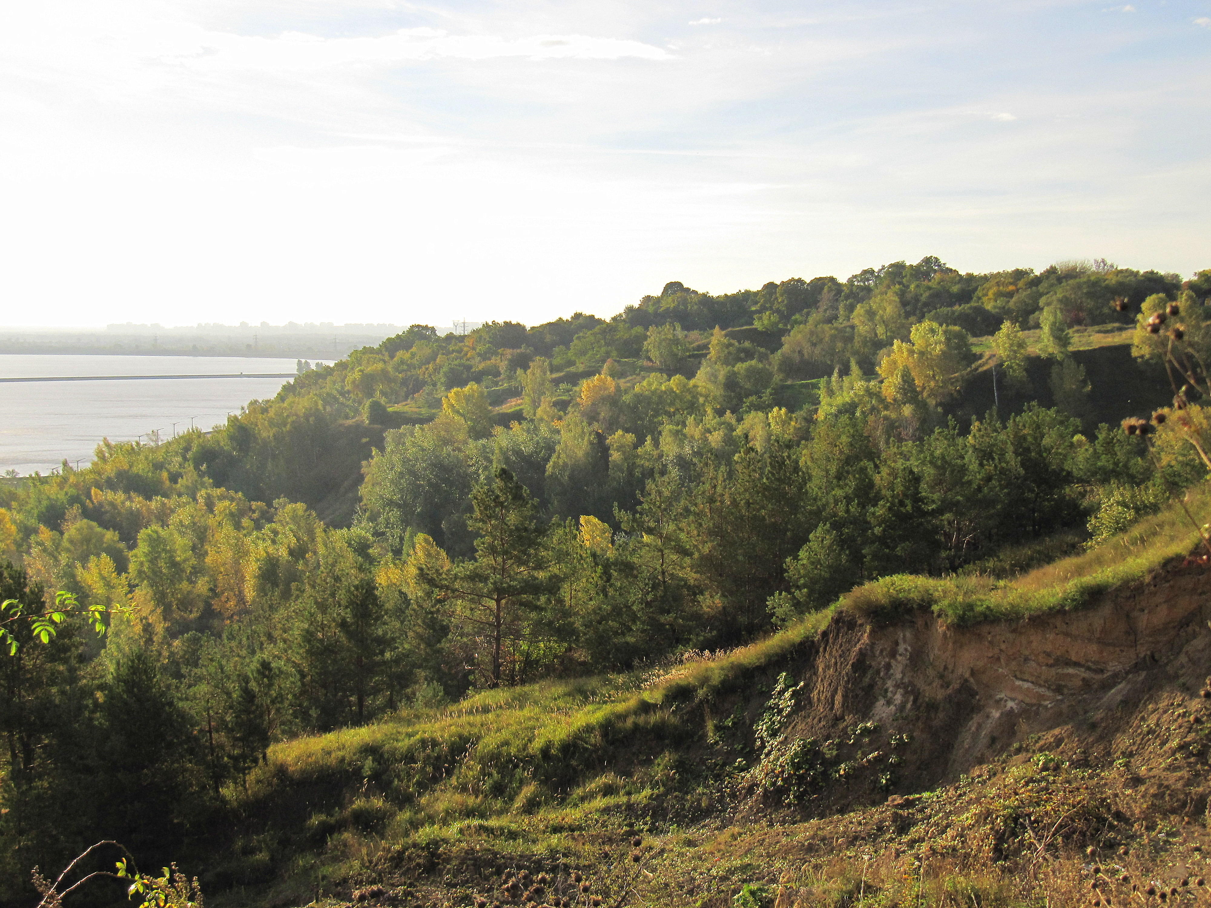 Ukraine, Vyshhorod. Nature reserve «Hvoshch Velykyi».